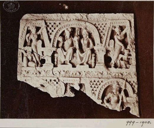 Siddharta and wife Yasodhara. Gandhara sculpture. Lahore Museum.